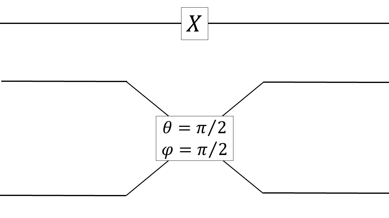 X gate as linear optics element